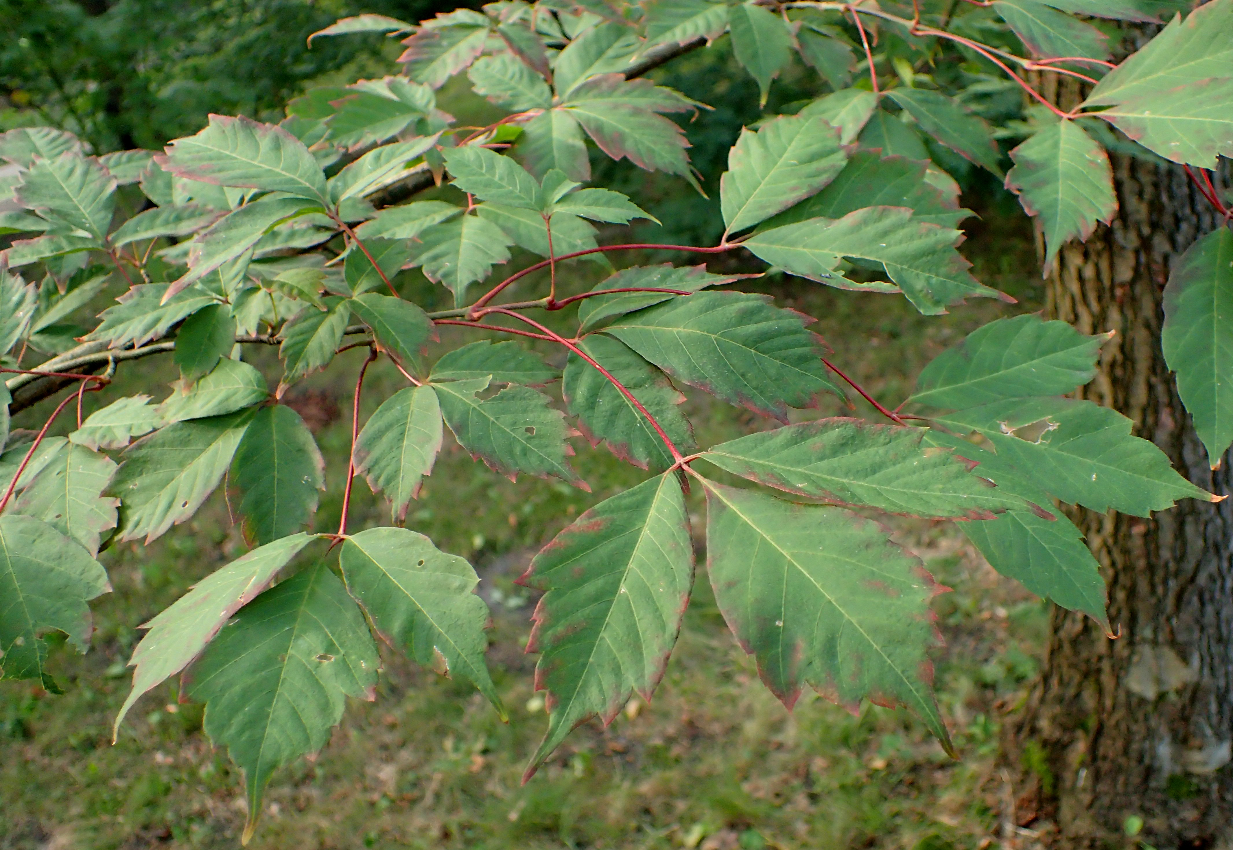 Acer cissifolium at Botanical Garden in Zielona Góra